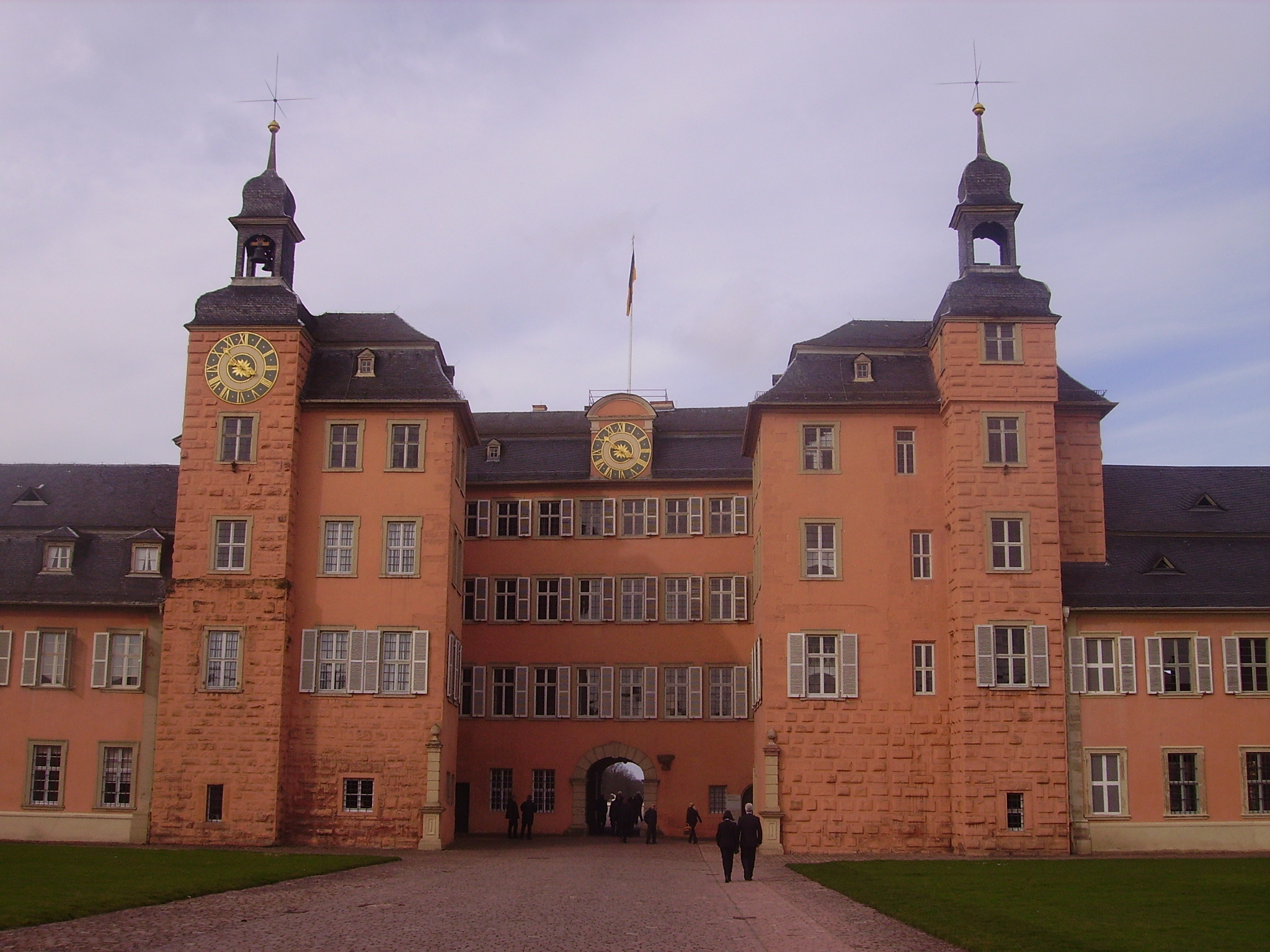 Schwetzingen Palace, Schwetzingen